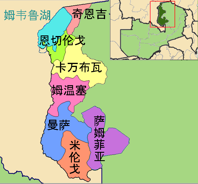 A Chinese-language map of the districts Luapula Province, Zambia.